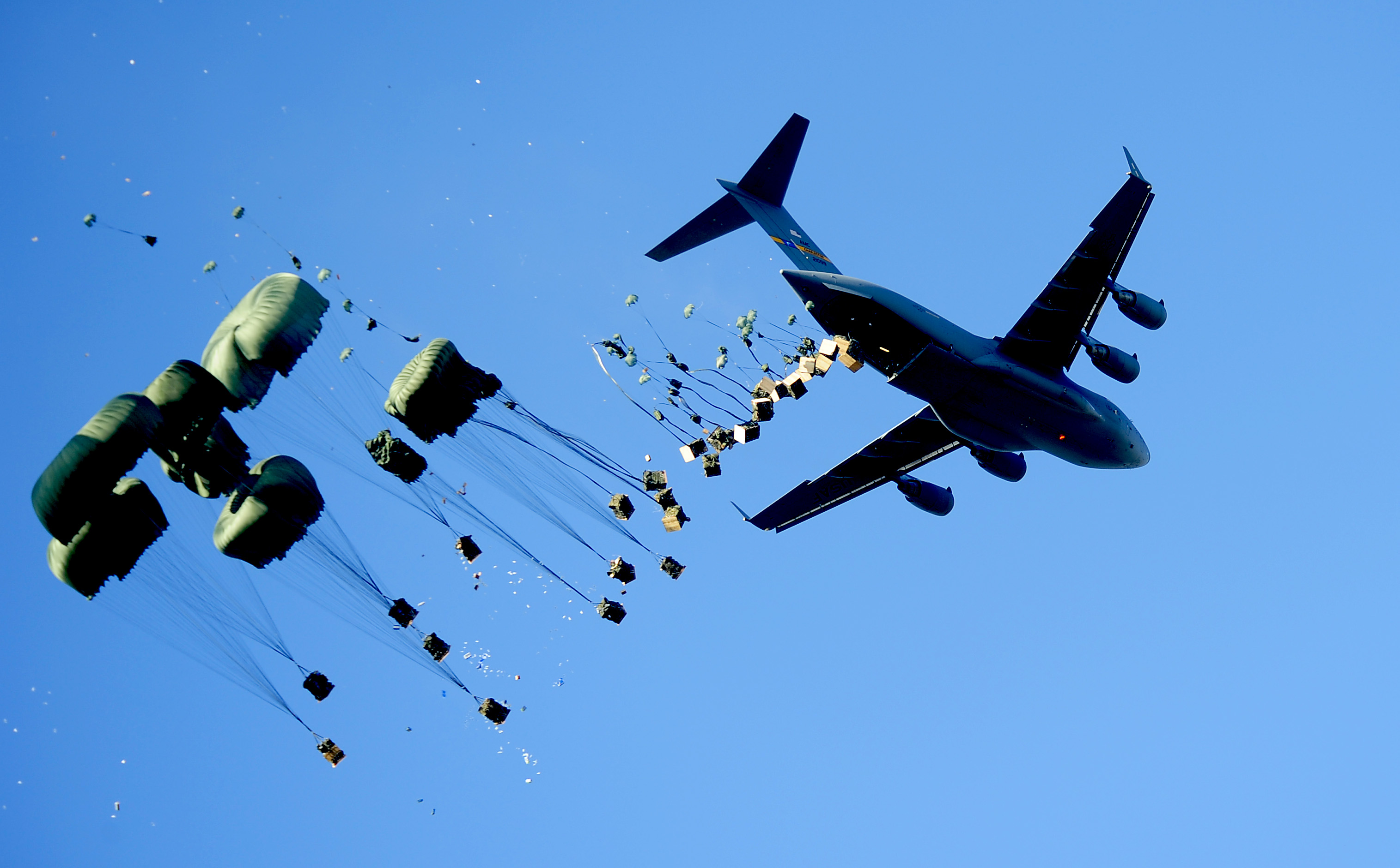 U.S. Air Force C-17 Globemaster III from the 437th Air Wing, Charleston Air Force Base, S.C., airdrops pallets of water and food to Mirebalais, Haiti, Jan 21, 2010 to be distributed by the members of the United Nations.